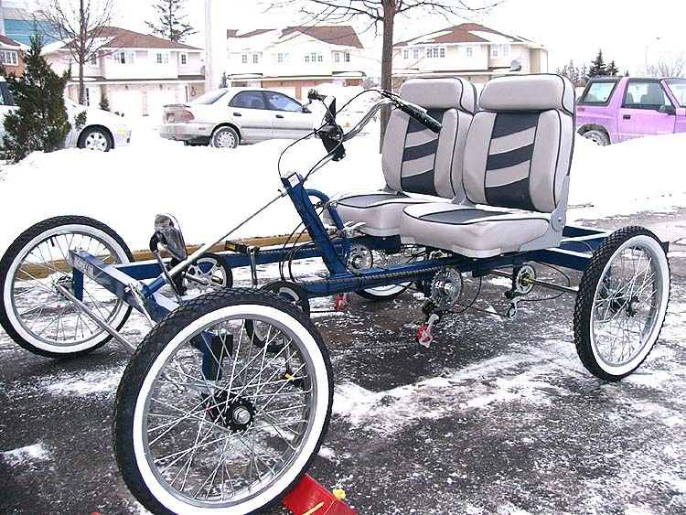 I took this photo on 09 February 2007 in Ottawa